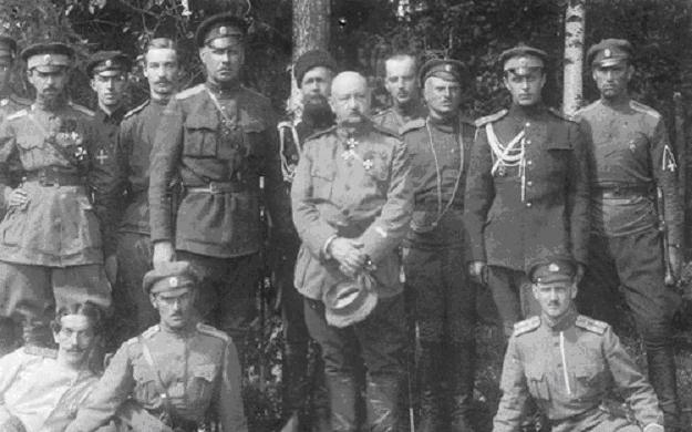 General Nikolay Yudenich and A. Rodzyanko with high military staff, 1919